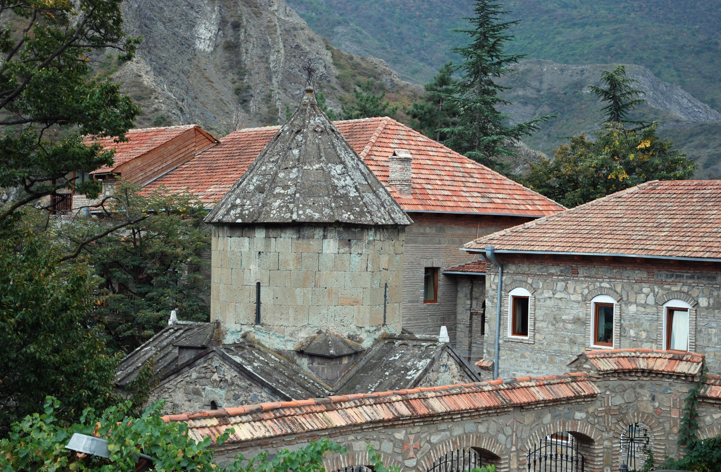 Ateni church in village Didi Ateni, 7 km south of Gori